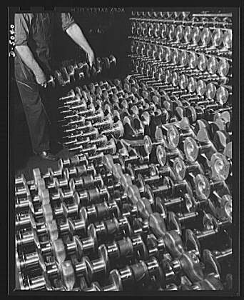 Continental Engine marine crankshafts, 1942. Office of War Information Photograph Collection. Original caption: "Production. Marine engines. Marine engine crankshafts for the Navy are produced in great quantity at a Midwest plant. The finest of material and workmanship go into their manufacture. Continental Motors, Michigan."